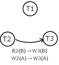 Precedence Graph for example 1 in the Precedence Graph article